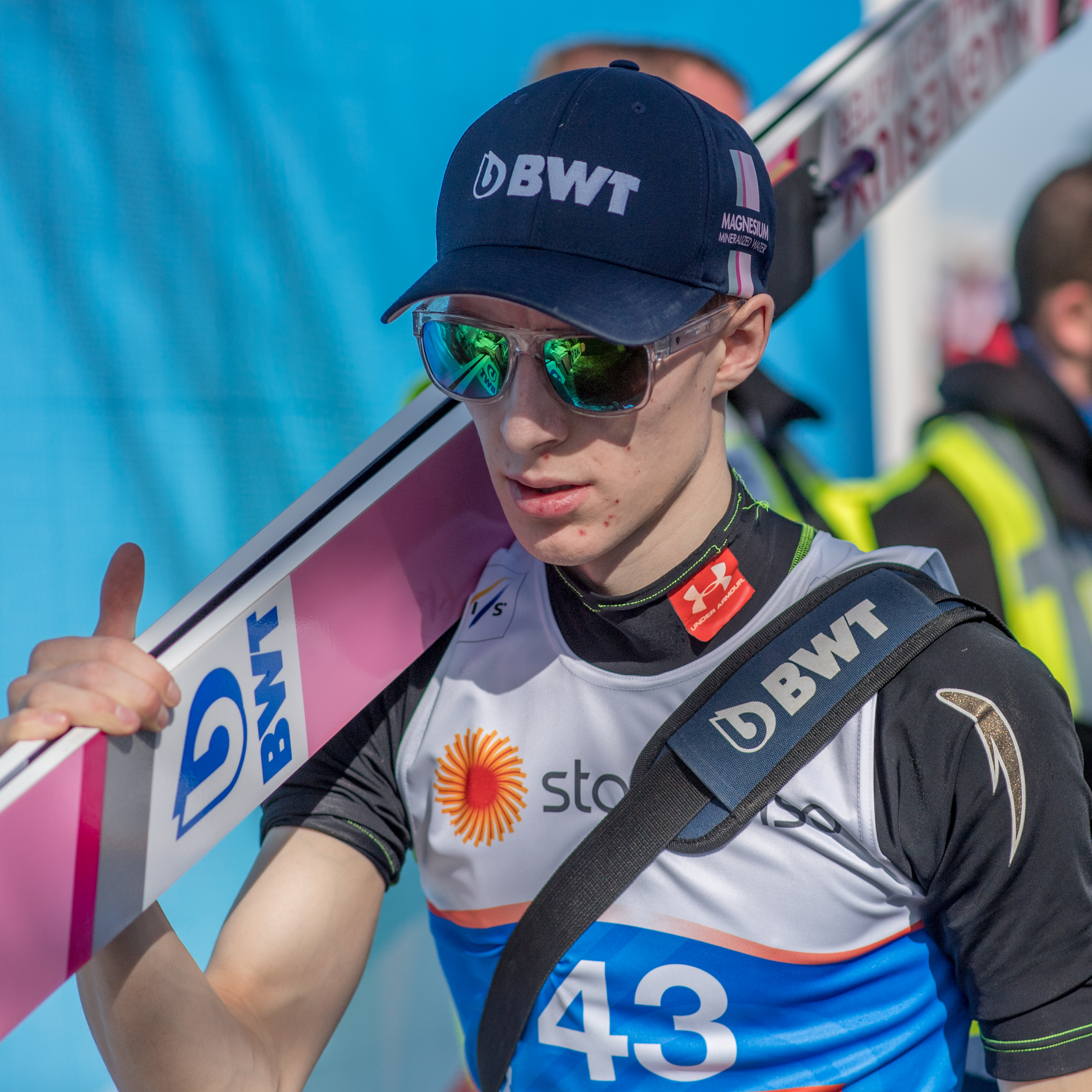 Seefeld, February 26, 2019: FIS Nordic World Ski Championships, Ski Jumping Training Men.